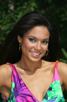 Miss Puerto Rico 2007 - Jennifer Guevara Campos in Miss World, Sanya, China